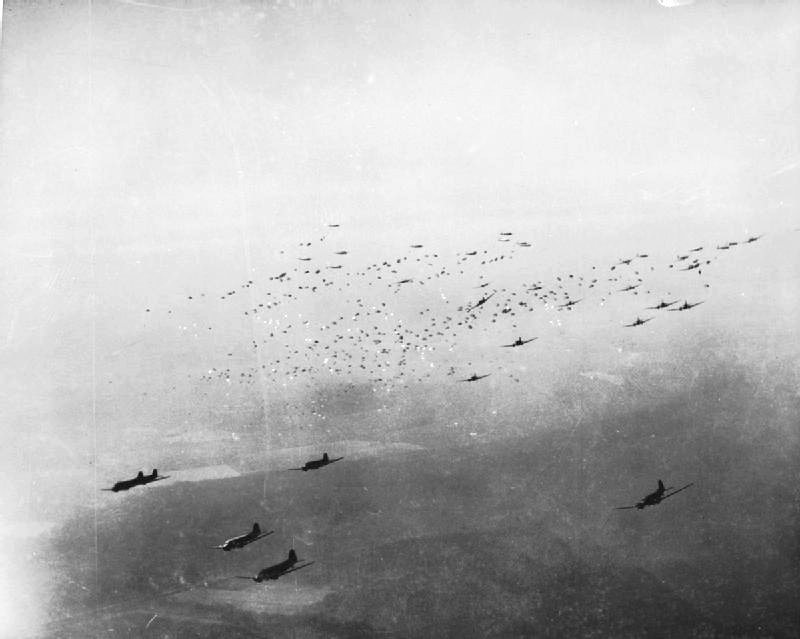 IWM caption : Crossing the Rhine 24 -31 March 1945: C-47 transport planes release hundreds of paratroops and their supplies over the Rees-Wesel area to the east of the Rhine. This was the greatest airborne operation of the war. Some 40,000 paratroops were dropped by 1,500 troop-carrying planes and gliders. Comment : This was Operation Varsity, part of Operation Plunder.